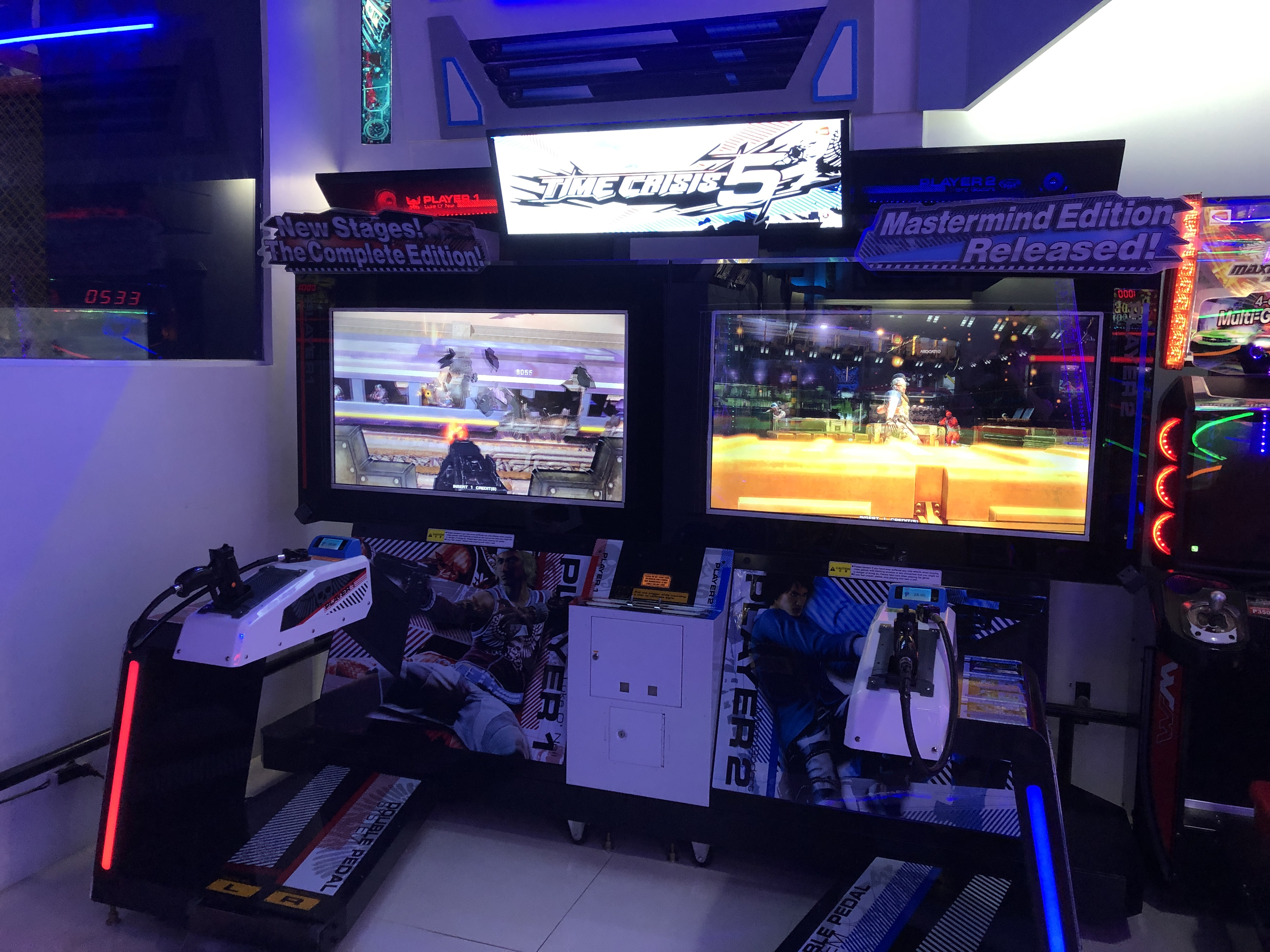 The Time Crisis 5 Mastermind arcade.